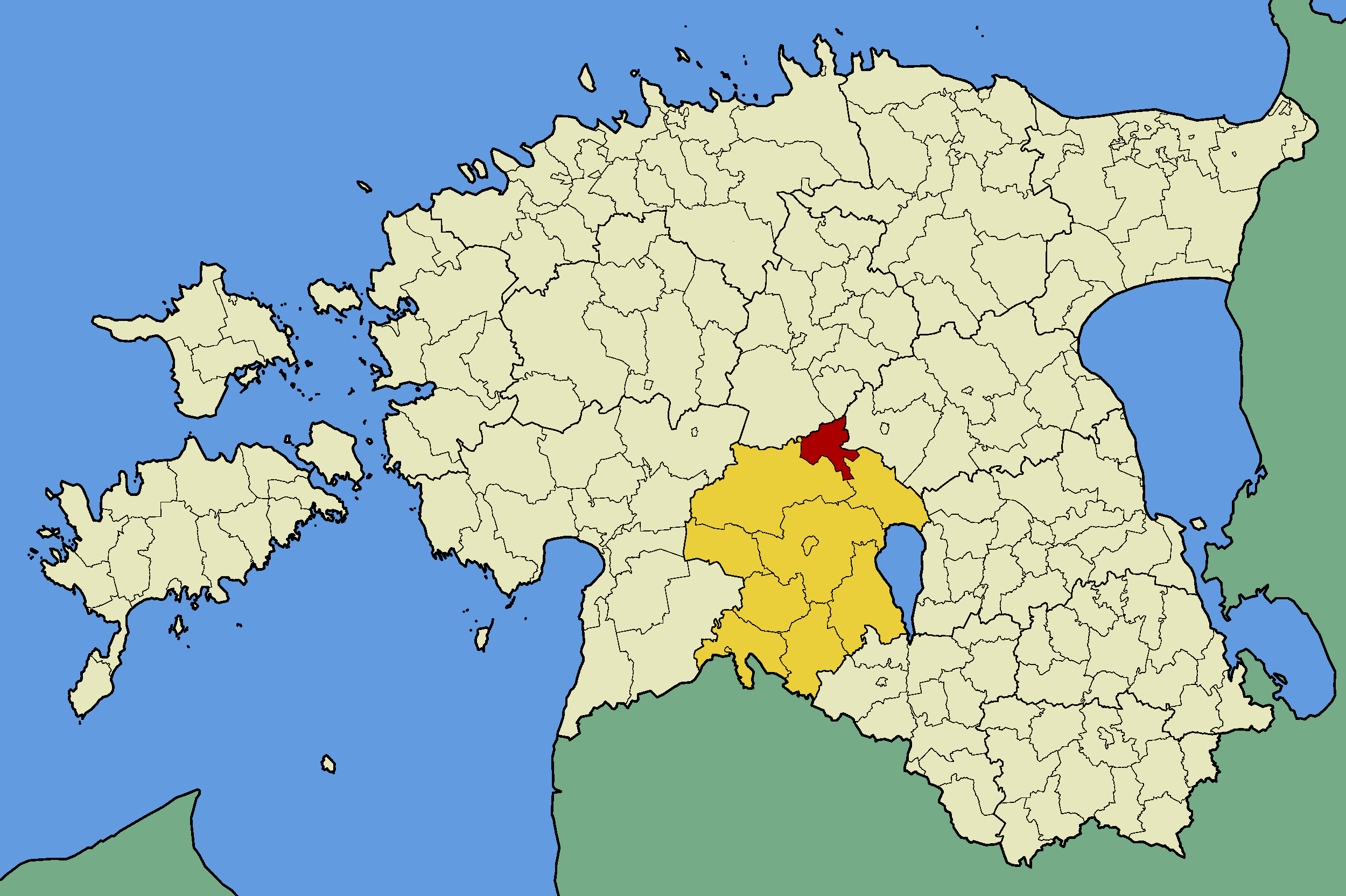 Map of Estonia with borders of municipalities (parishes). Viljandi county and Kõo municipality emphasized.